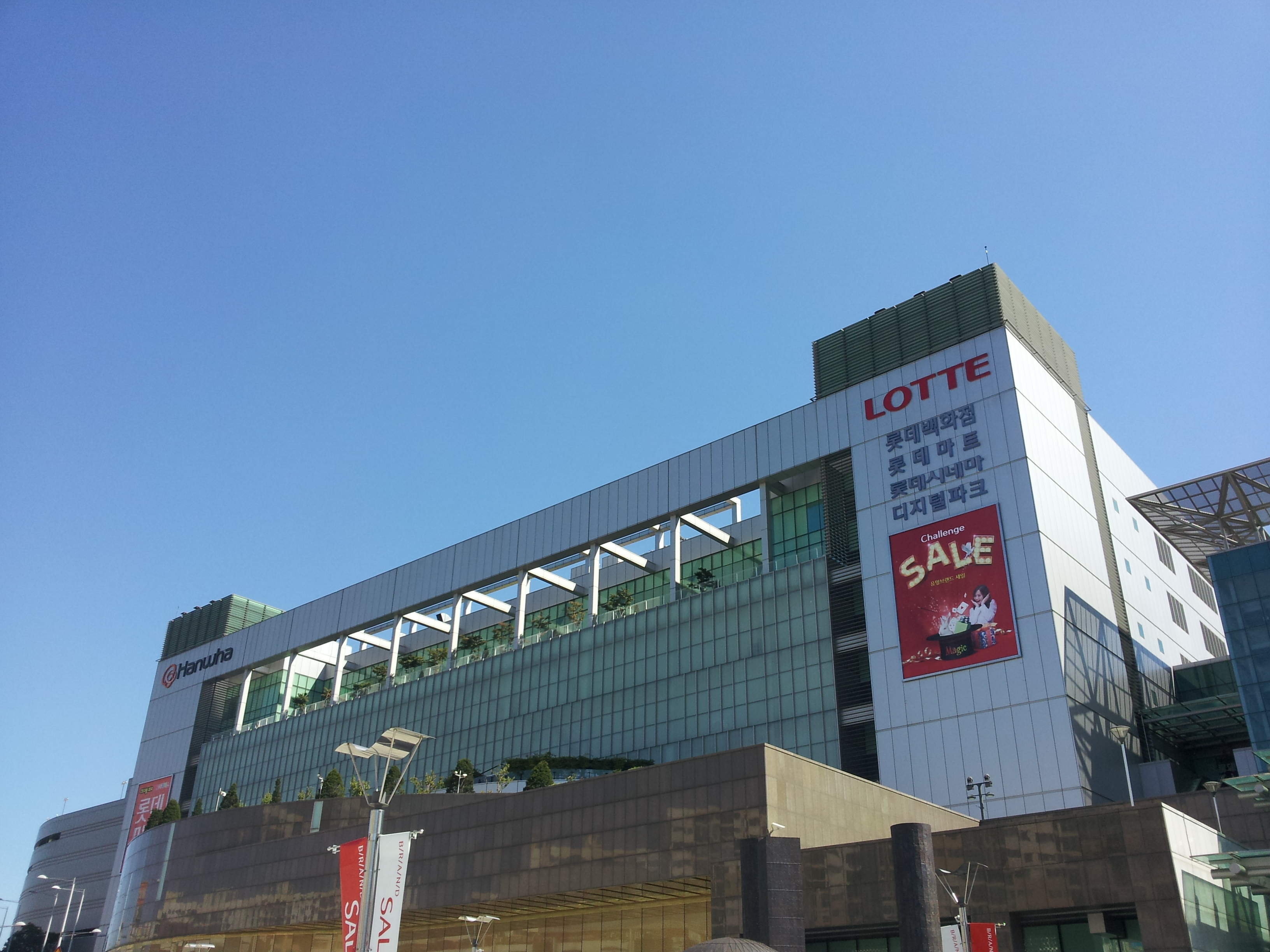 Lotte Department in Cheongnyangni, Seoul, Korea